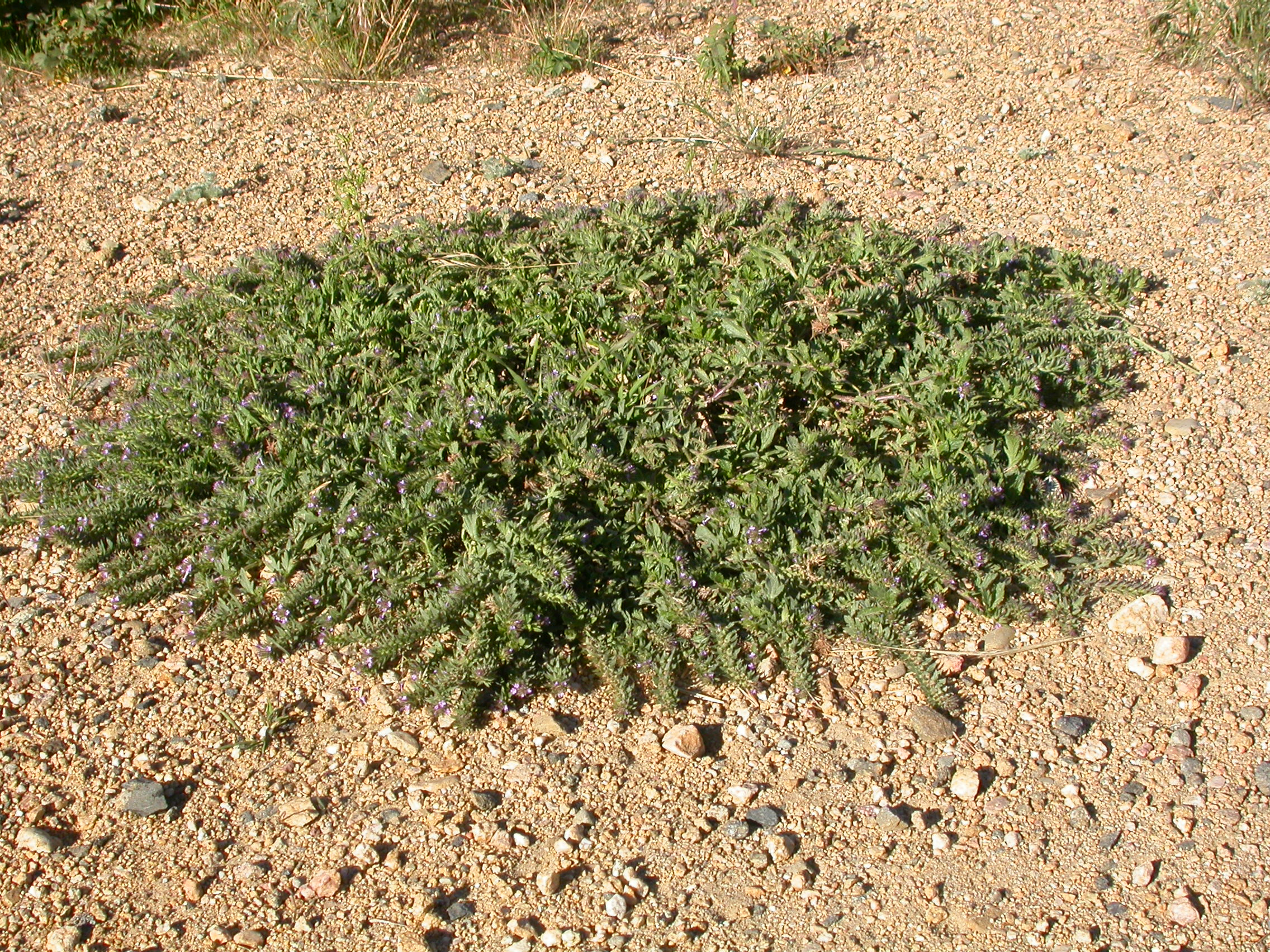 Prostrate stems radiating from a central rootstock is characteristic of this species.